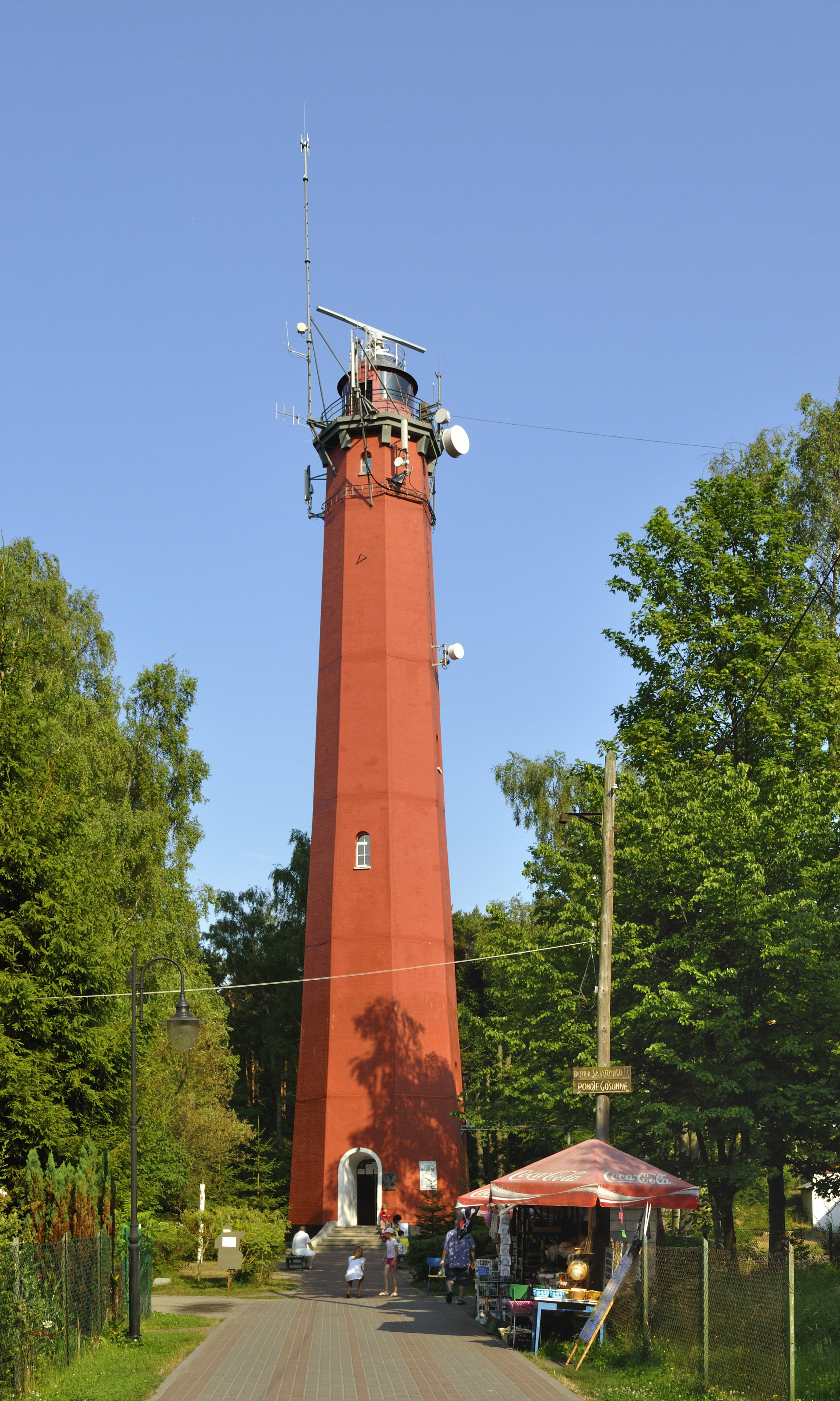 Picture taken in Hel after Wikimania 2010 conference. Lighthouse.